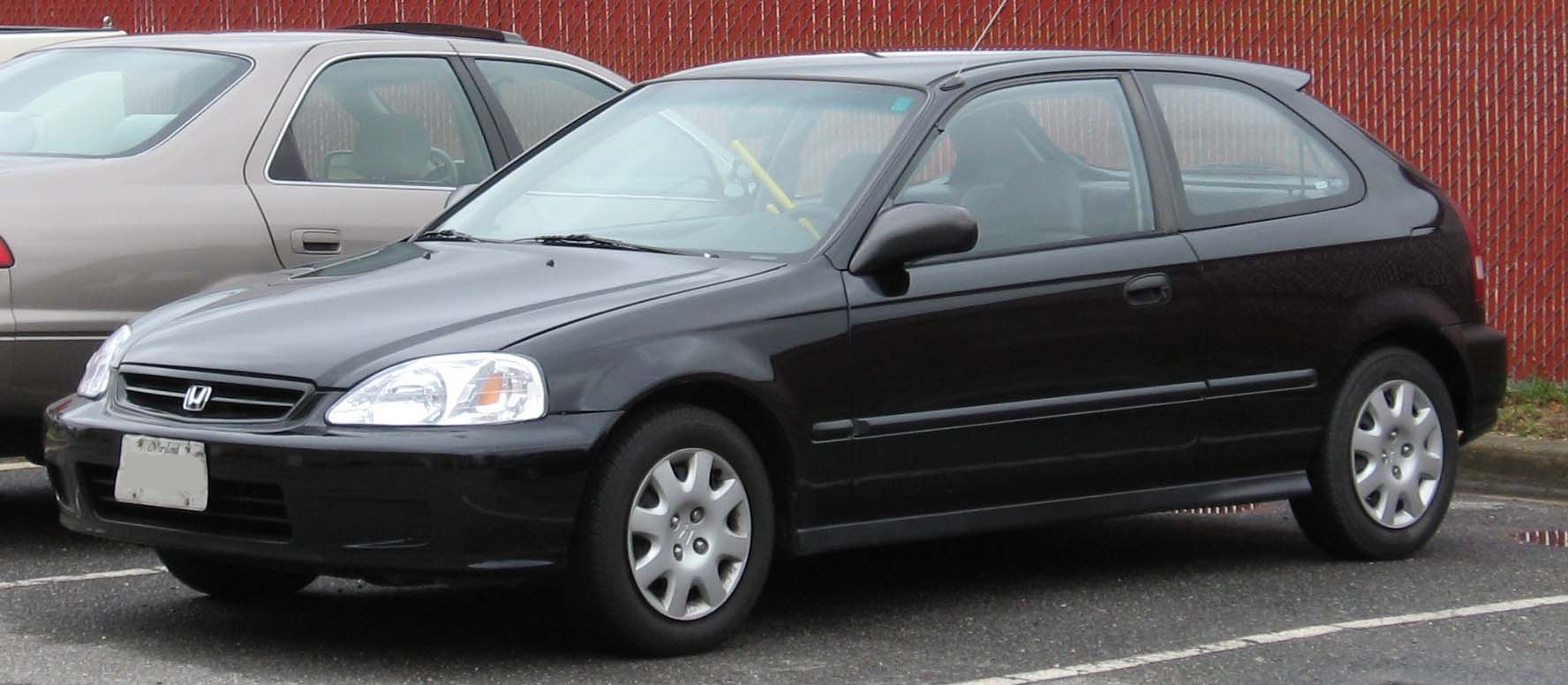 2000 Honda Civic hatchback photographed in USA.